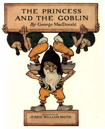 Title page from The Princess and the Goblin by George MacDonald. Illustration by Jessie Willcox Smith from a 1920 edition of the book.